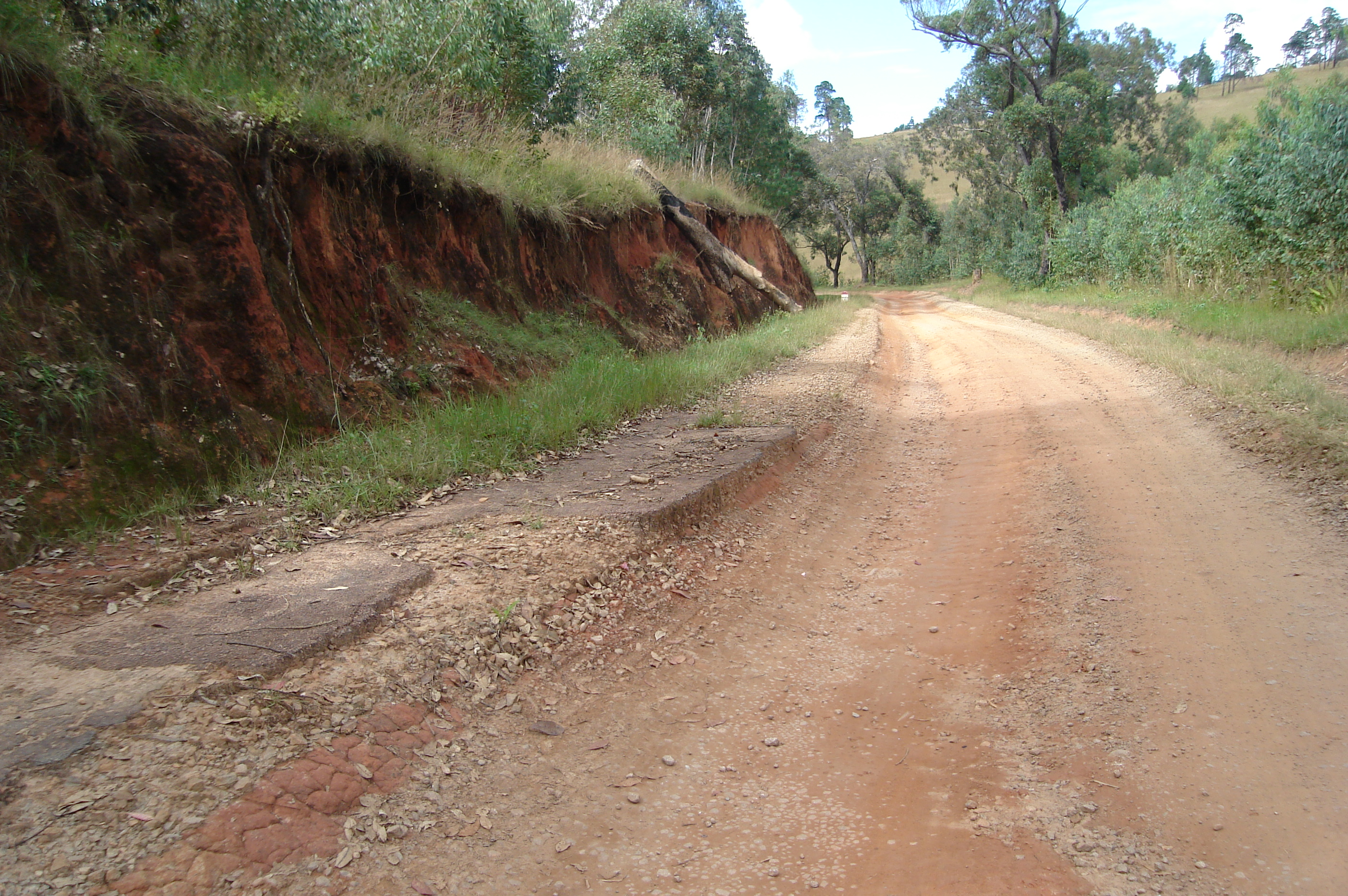 Madagascar, National Road No. 42 between Fianarantsoa and Isorana. The road was surfaced but only a small strip of tarmac on the left side remained.